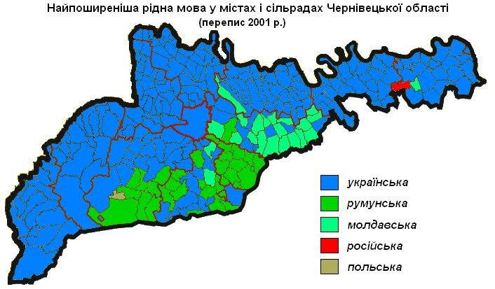 Native languages of Chernivtsi oblast according to 2001 census